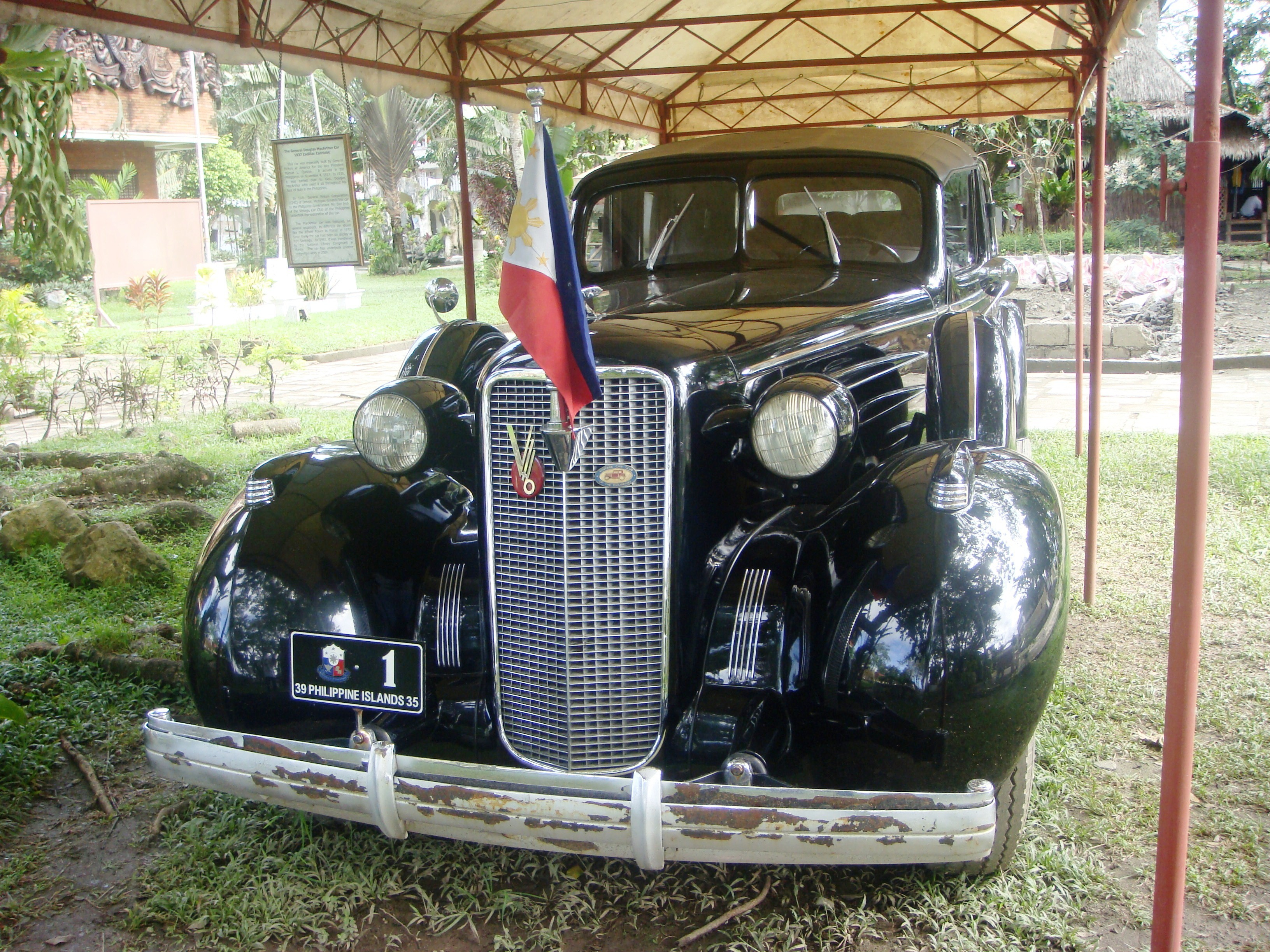 1934 Cadillac V16 Series 90 Fleetwood Transformable Town Car CabrioletUsed by Manuel L. Quezon 1934-1937, then by Field Marshal Douglas McArthur, at Quezon Park, Baler, Aurora)[1].